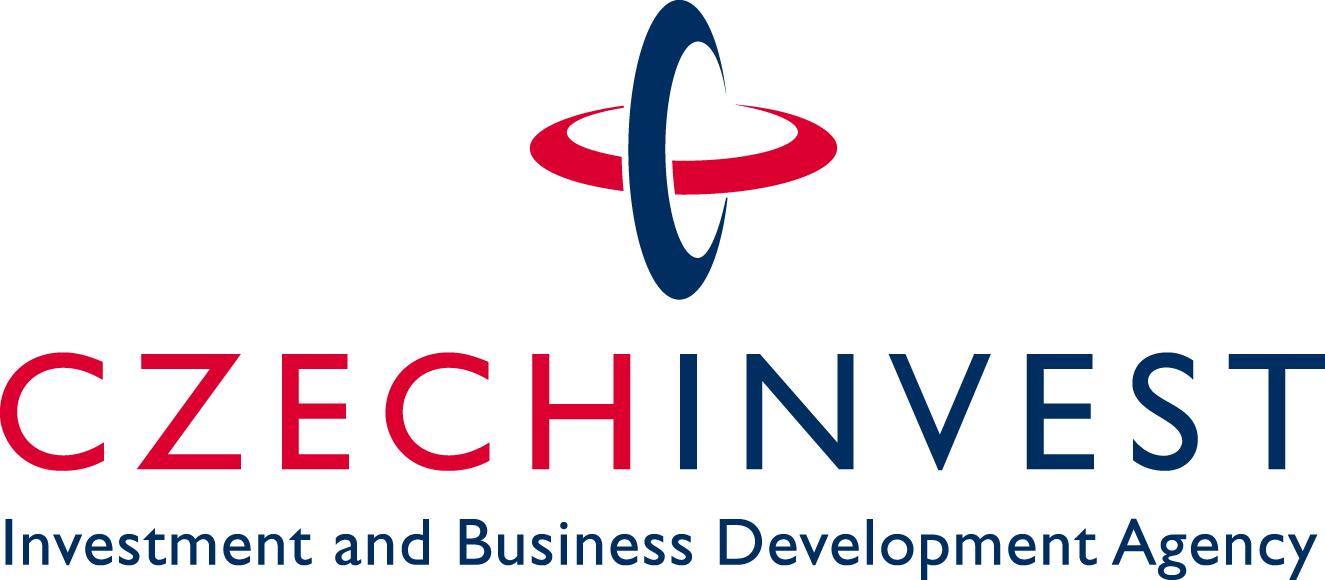 Logo of CzechInvest in English